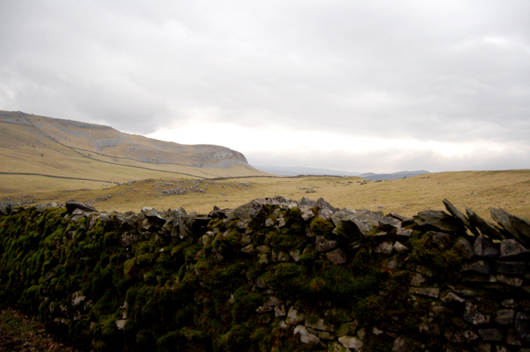 The scenery around Clapham.